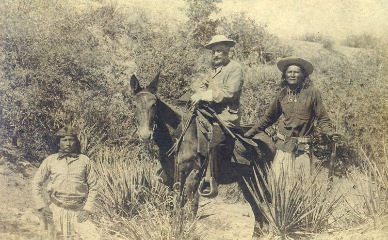 General Crook aboard his mule, White Mountain Apache Scout William Alchesay on the right, and an unknown Apache scout on the left. Taken in Apache Pass near Fort Bowie.